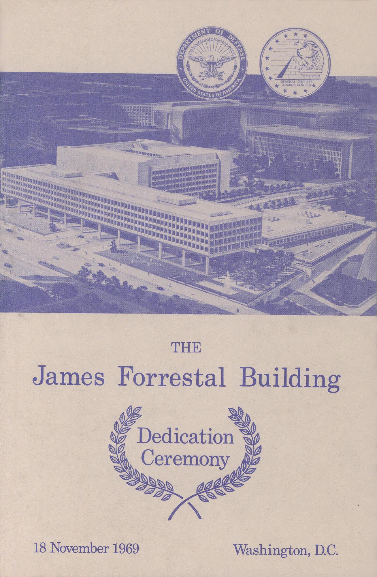 Front cover of the program for the dedication of theJames V. Forrestal Building located in Washington, D.C., the United States — on November 18, 1969. The Forrestal Building is a low-rise Modernist−Brutalist office building, formerly known as the "Little Pentagon" and "Federal Office Building 5", and has been the DOE headquarters since 1977.